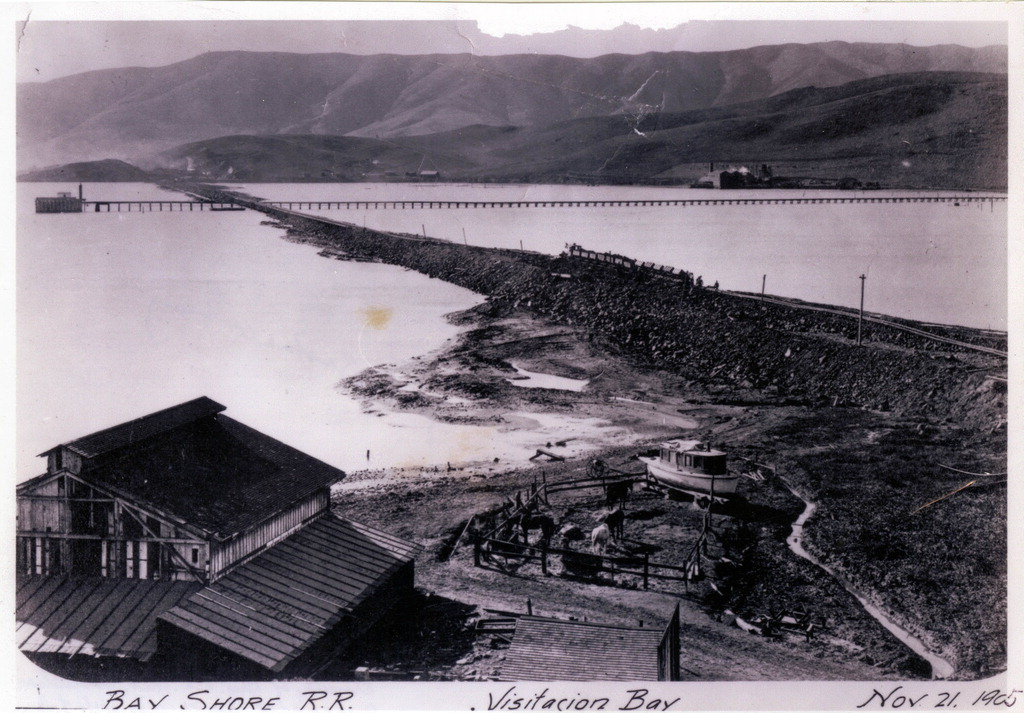 Entitled "Bayshore Railroad". Location stated to be Visitacion Bay, so this is showing the Bayshore Cutoff route along with a long trestle across the water which was used to dump fill taken from the cuts to form the Visitacion/Bayshore Railyard. [1]